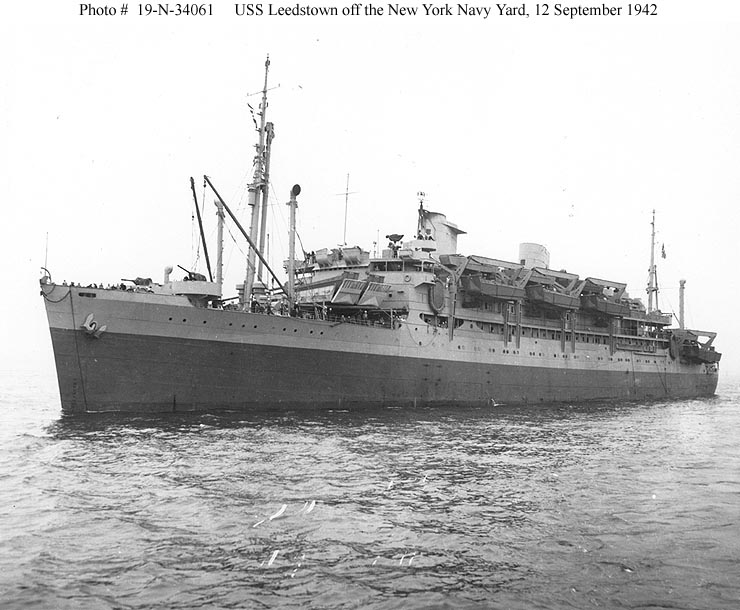 USS Leedstown (AP-73) Off the New York Navy Yard, 12 September 1942. Note the large number of LCM, LCVP and LCP landing craft carried by this transport.